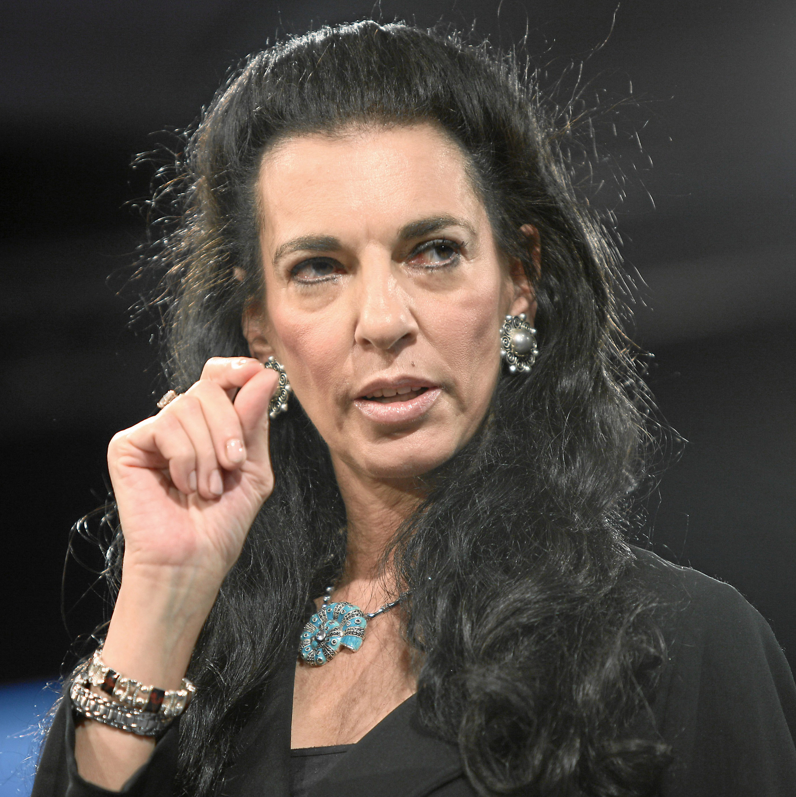 DAVOS/SWITZERLAND, 30JAN10 - Orit Gadiesh, Chairman, Bain & Company, USA; Member of the Foundation Board of the World Economic Forum captured during the session 'The Gender Agenda: Putting Parity into Practice' at the Annual Meeting 2010 of the World Economic Forum in Davos, Switzerland, January 30, 2010 in the Congress Centre.. . Copyright by World Economic Forum. by Sebastian Derungs. . . .